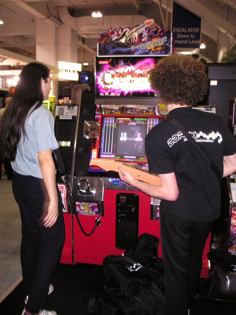 A couple of players playing a set of Guitarfreaks.